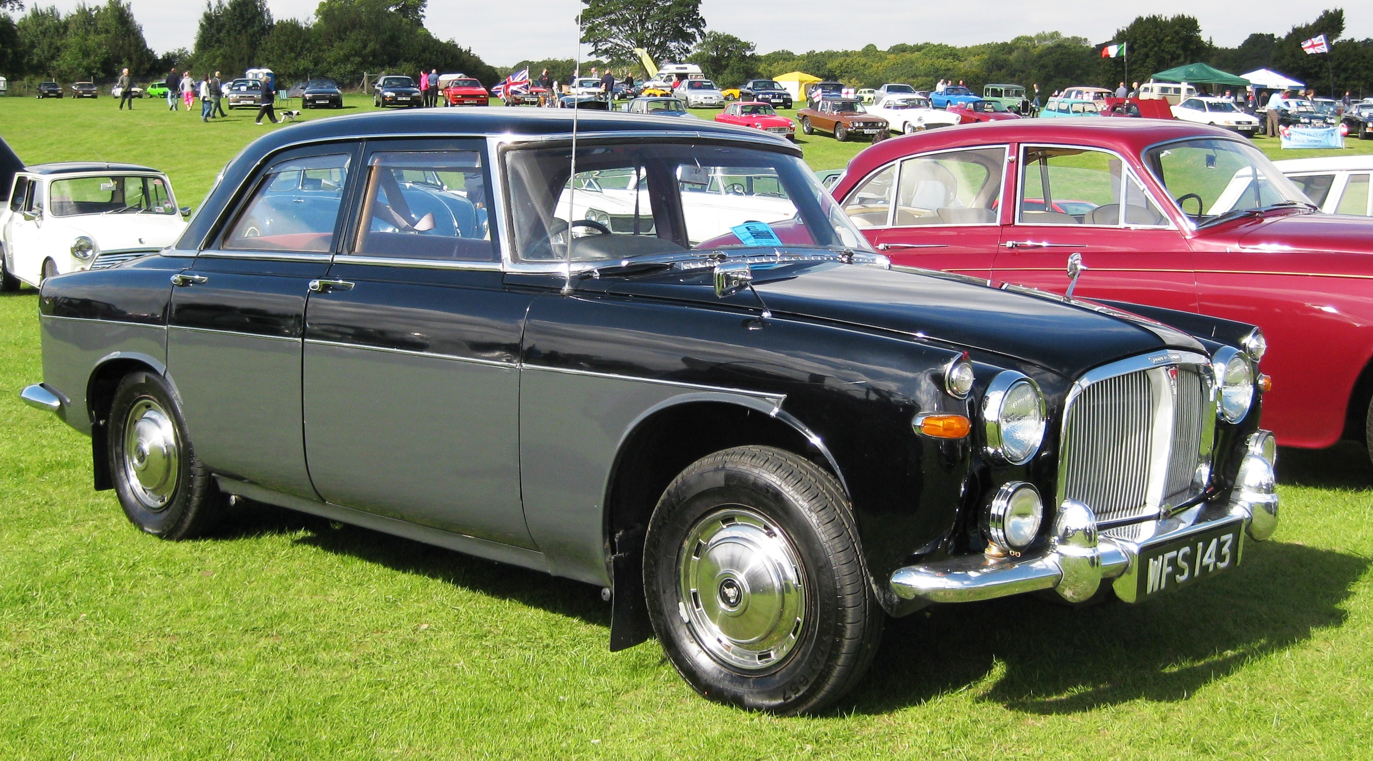 Rover 3-litre Mark I. The unusual glass wind deflectors at the tops of the door-window openings distinguish the Mark I from later versions of the car.